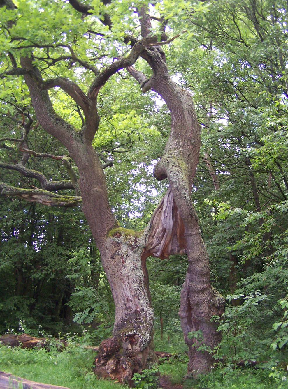 The oak Betteleiche in Hainich forest.